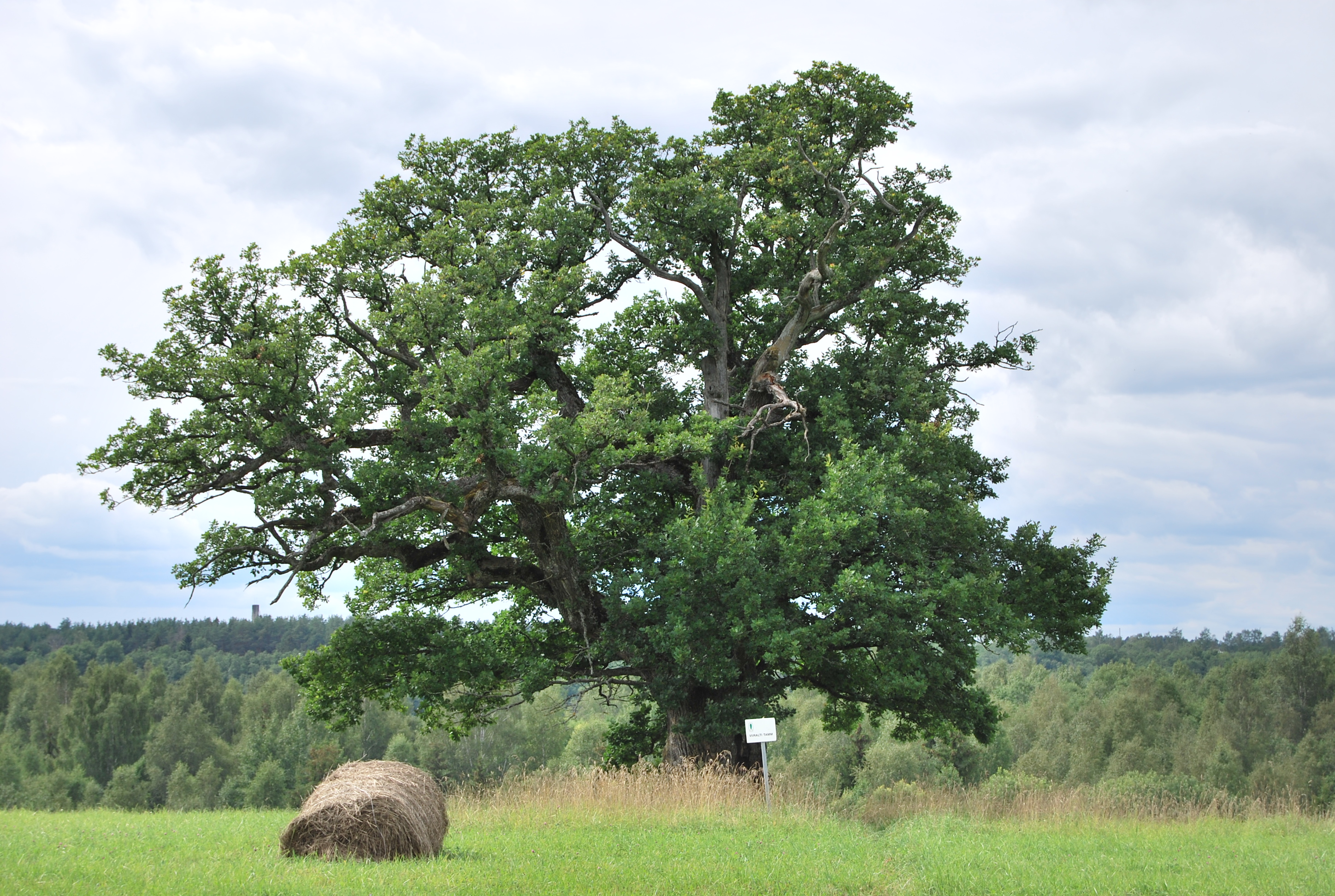 Viiralti Oak, Viljandi District, Estonia.